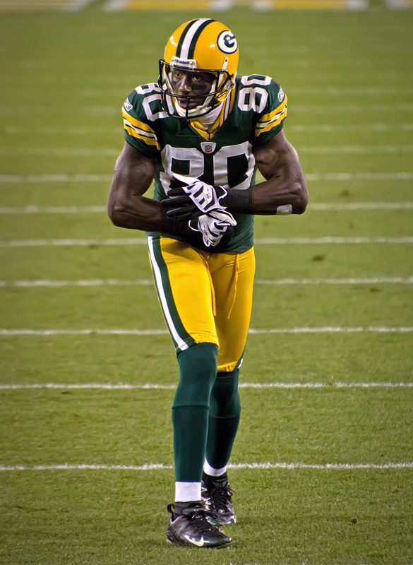 Lambeau Field, October 24, 2010. Photo by Mike Morbeck.